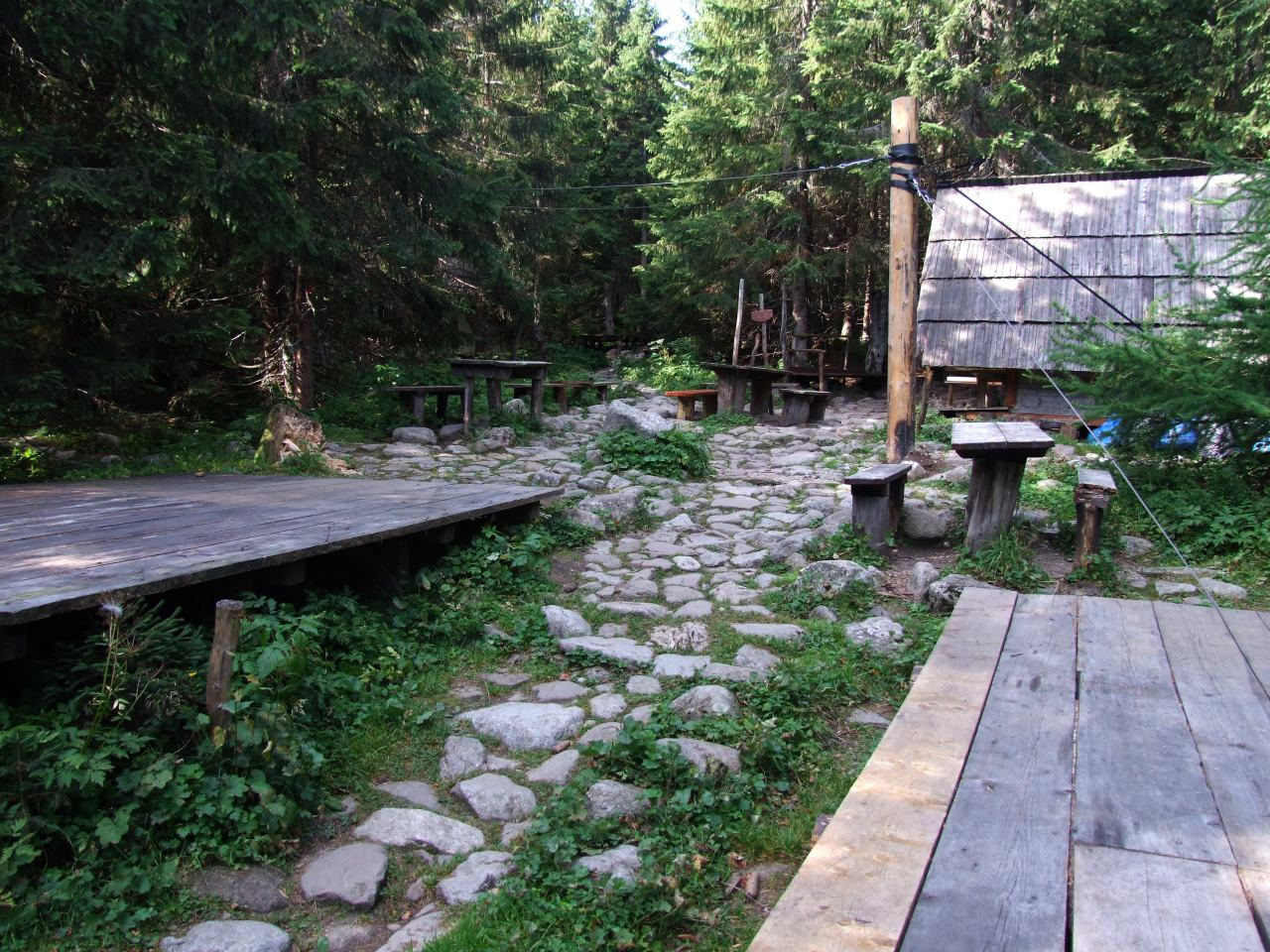 Pole namiotowe PZA na Rąbaniskach w Dolinie Suchej Wody Gąsienicowej w Tatrach (po sezonie)